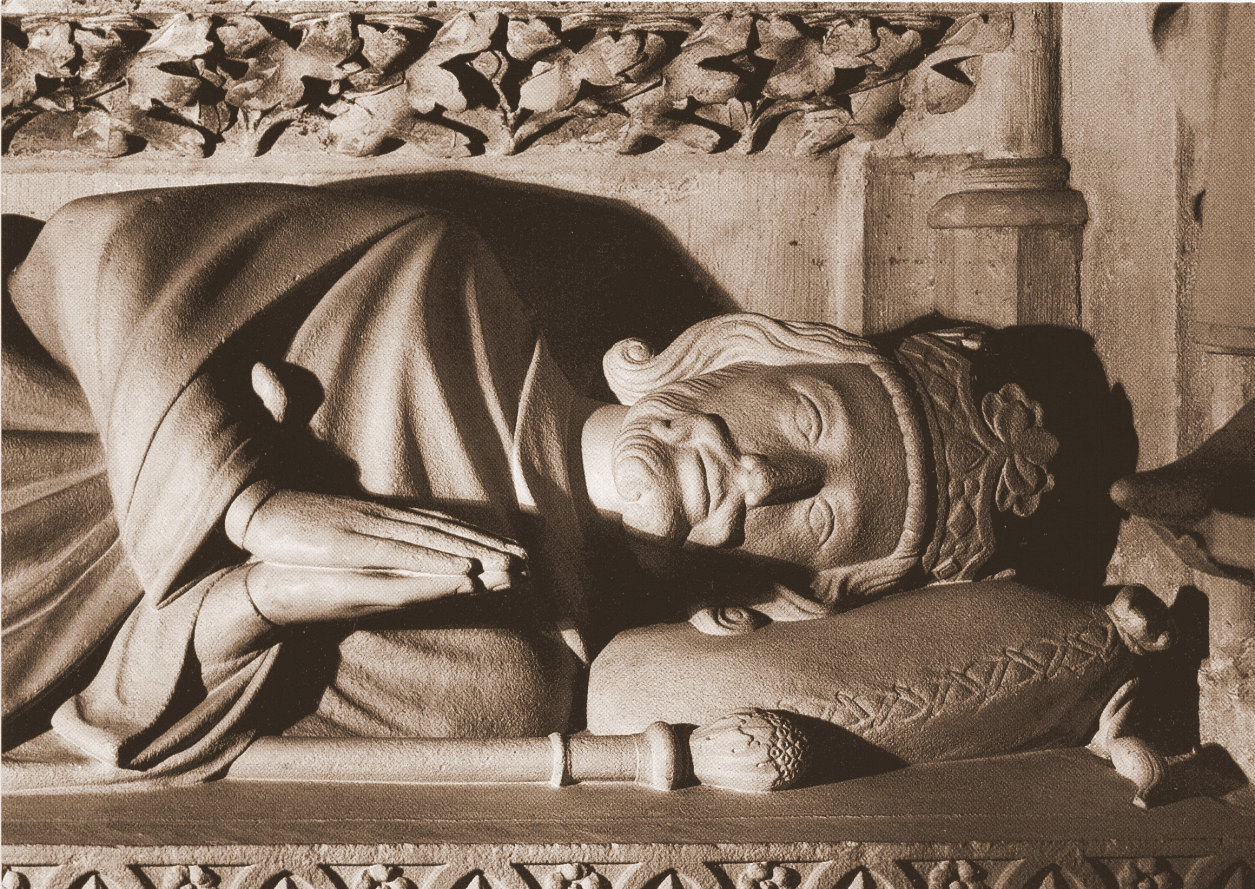 Close up image of Dagobert's tomb